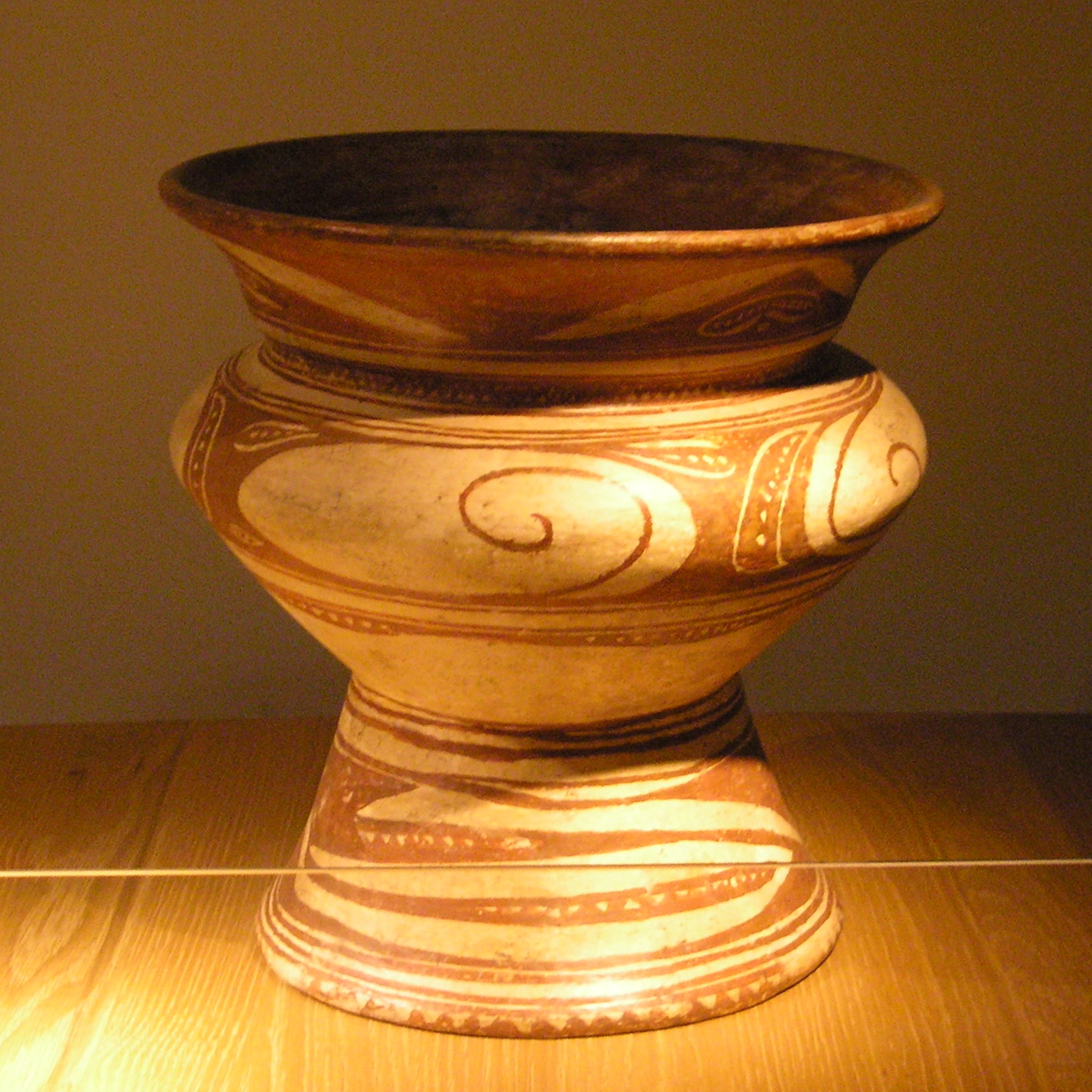 Bowl with base. Lopburi 2300 BCE. Thailand, Bang Chiang culture. 210-200 BCE. Ceramic, painted. 132 cm. Located in the Museum für Indische Kunst, Berlin-Dahlem.